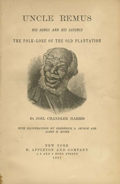 Title page of Uncle Remus, His Songs and His Sayings: The Folk-Lore of the Old Plantation, by Joel Chandler Harris. Illustrations by Frederick S. Church and James H. Moser. New York: D. Appleton and Company, 1881.